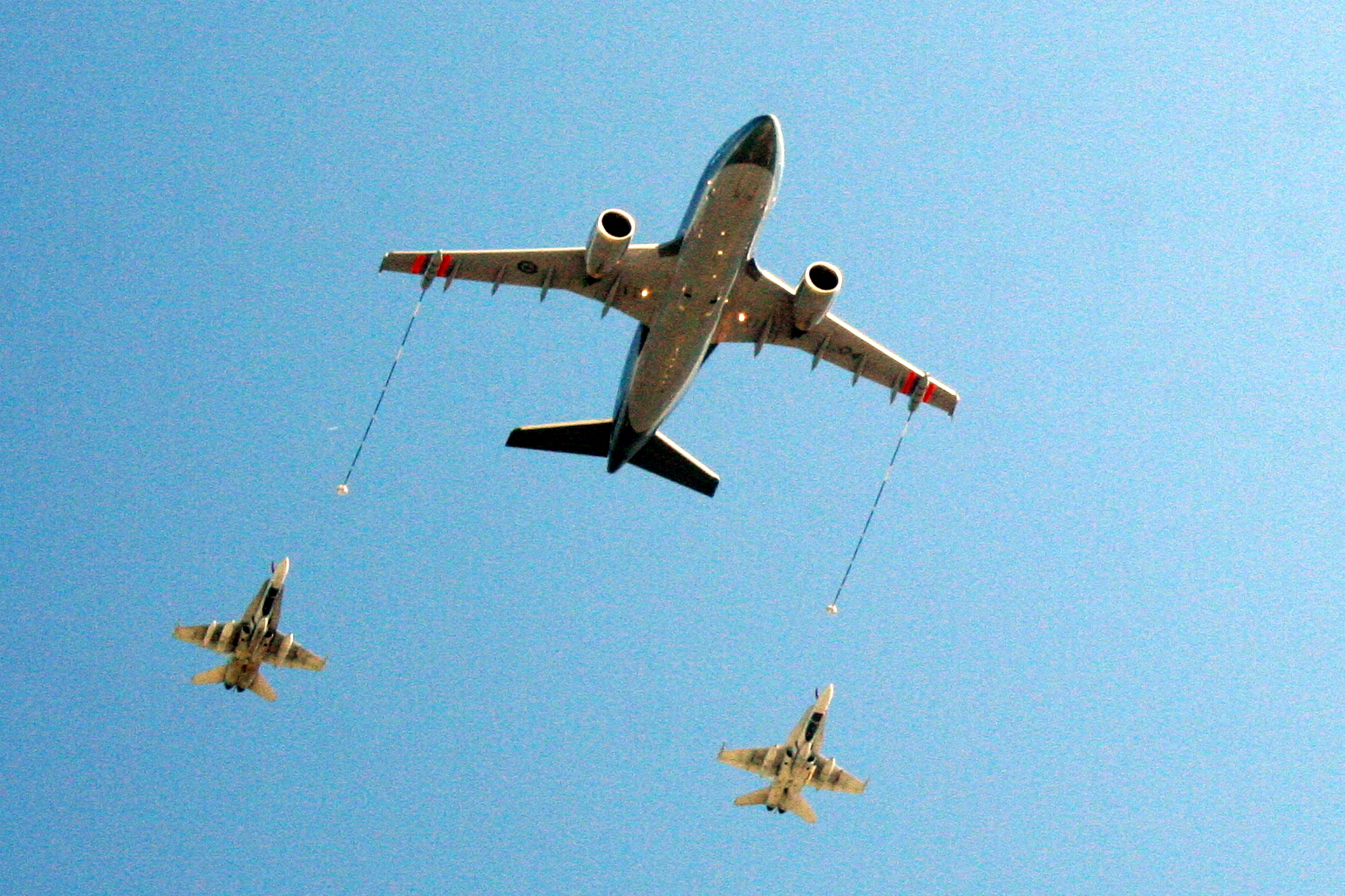 CC-150 Polaris tanker refueling two CF-18 Hornets. The CC-150 is a militarized version of the Airbus A310.